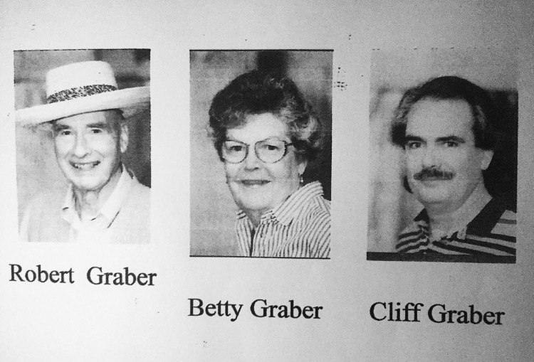 Family owned and operated since 1894